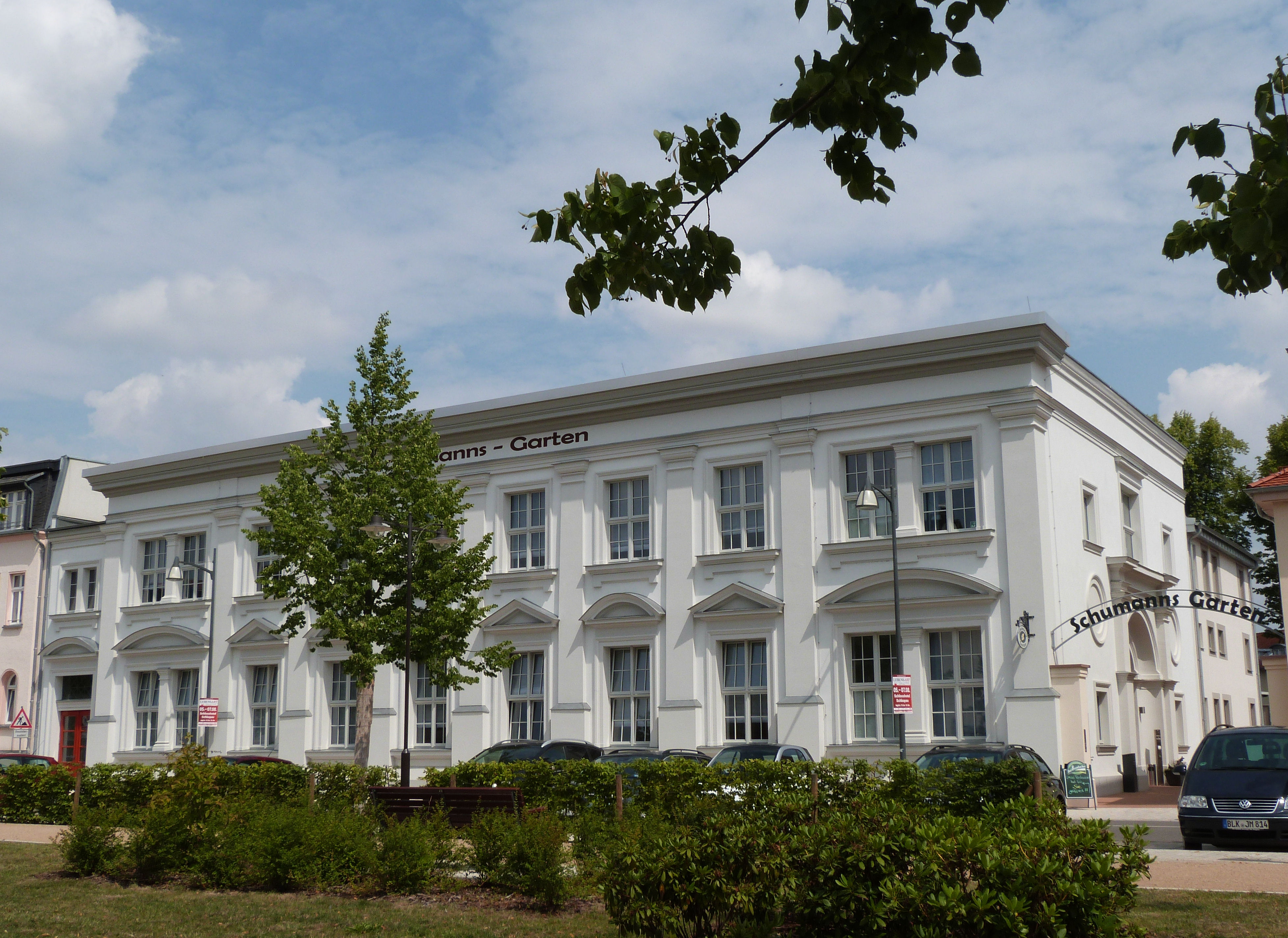 Schumanns Garten, built in 1870, today hotel, Promenade No. 11, Weissenfels